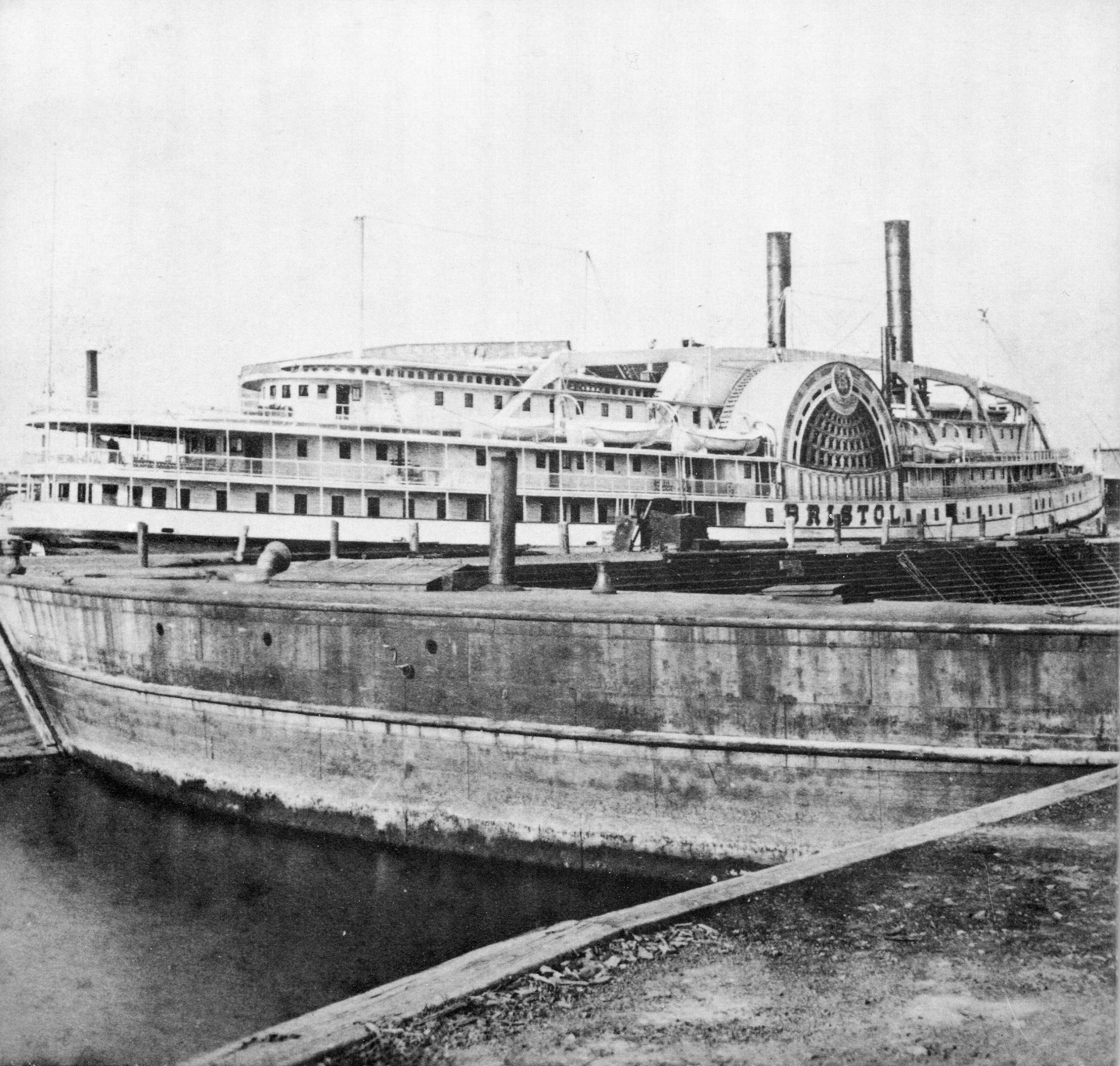 Stern view of the Long Island Sound steamboat Bristol at Robins Dry Dock, Erie Basin, Brooklyn, 1870.